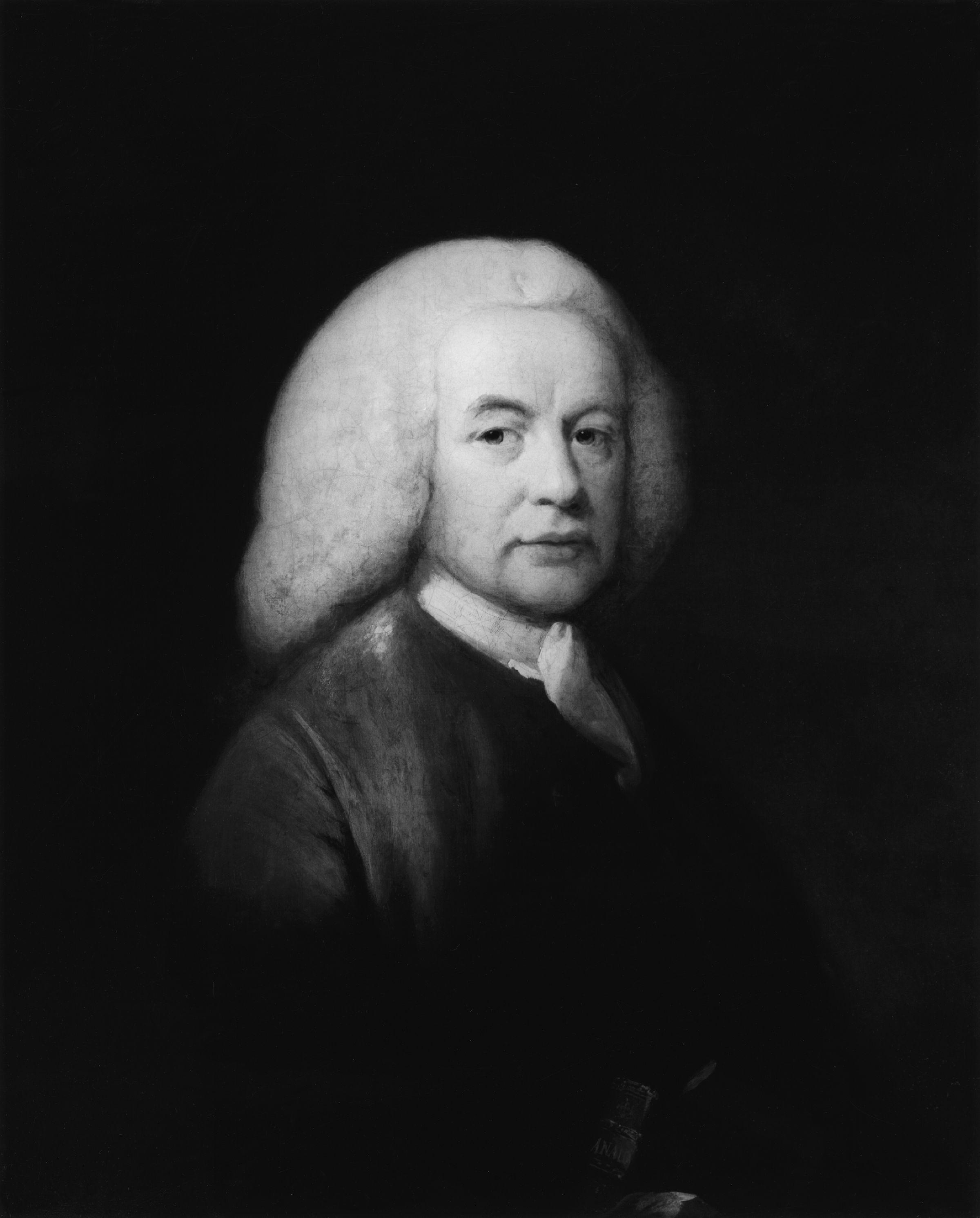 James Parsons, by Benjamin Wilson (died 1788). All images in this batch have been confirmed as author died before 1939 according to the official death date listed by the NPG.